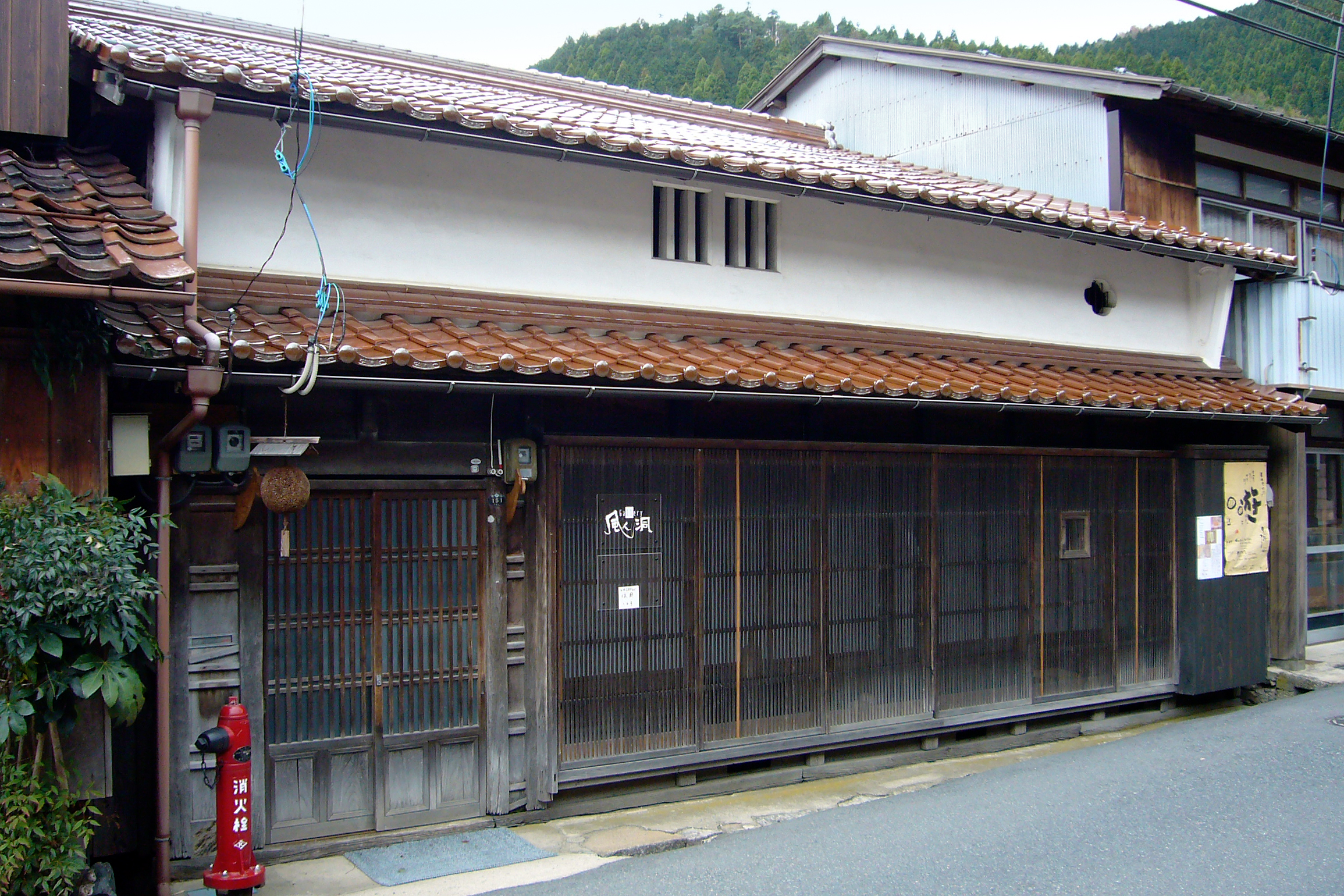 Gallery Fujindou in Chizu, Tottori prefecture, Japan